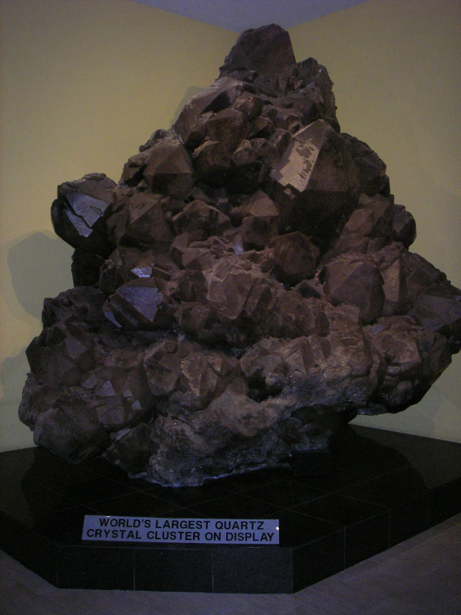 World's largest quartz crystal cluster on display. Swakopmund, Namibia